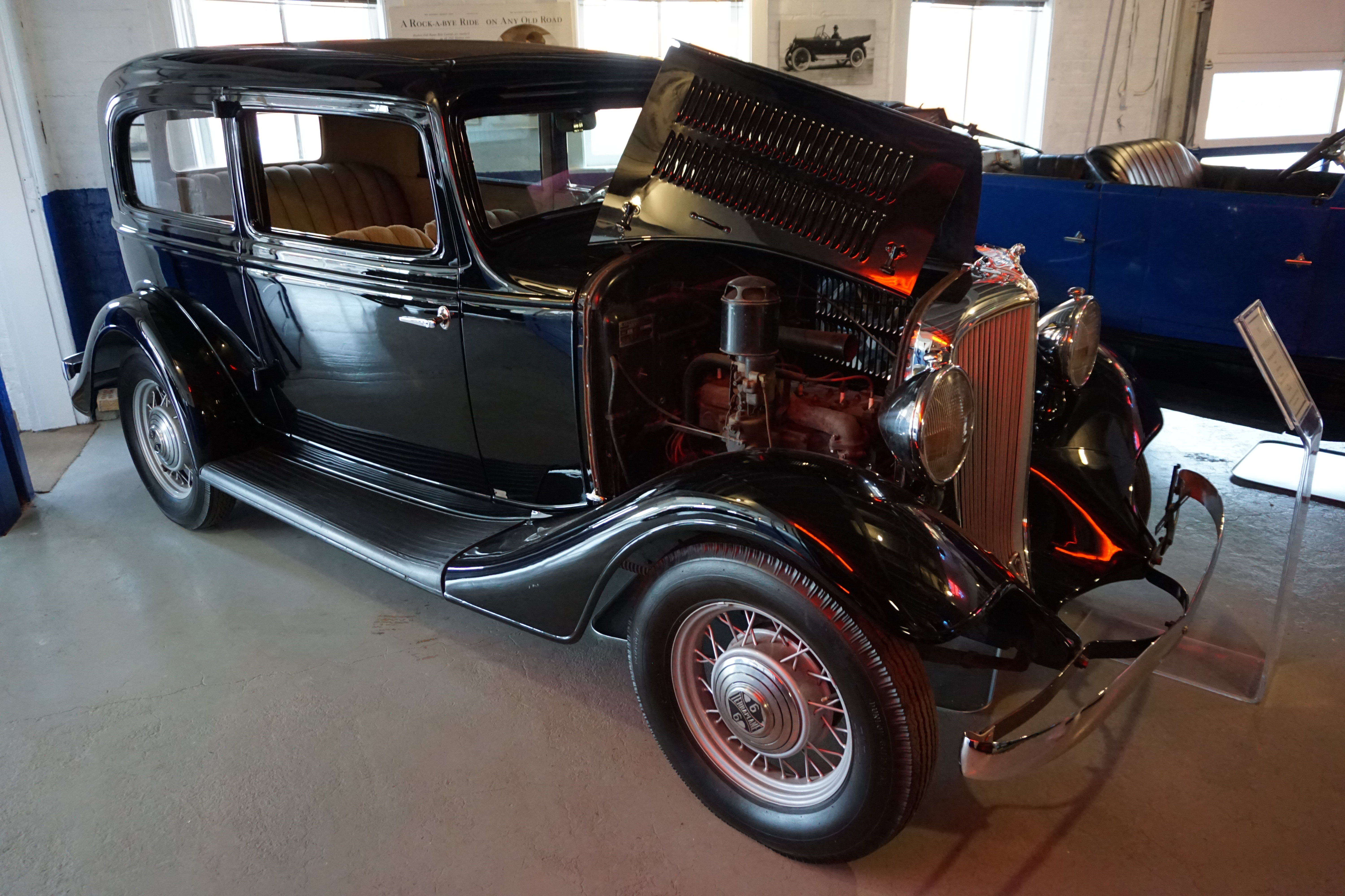 A 1933 Terraplane "K" at the Ypsilanti Automotive Heritage Museum in Ypsilanti, Michigan (United States).